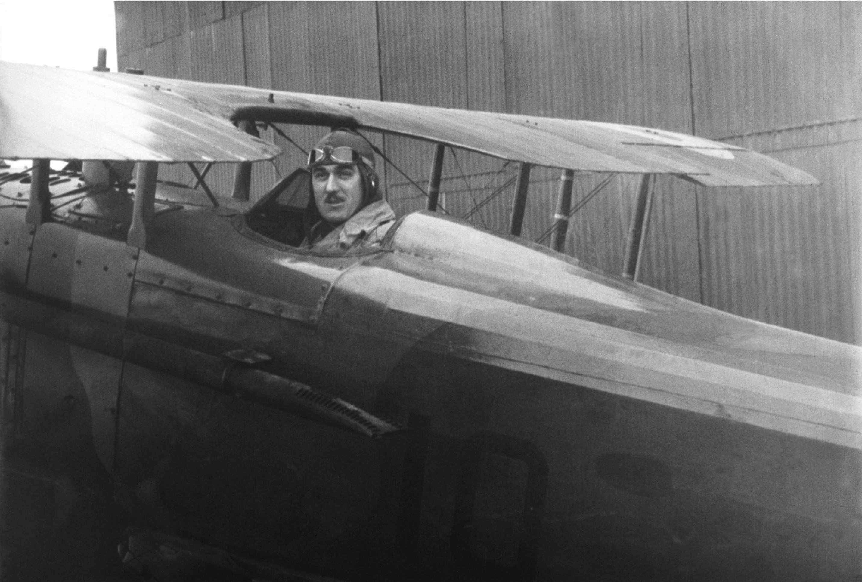 Description: Tom Carroll was a NACA research pilot and the SPAD was a French bi-plane fighter aircraft during WWI.